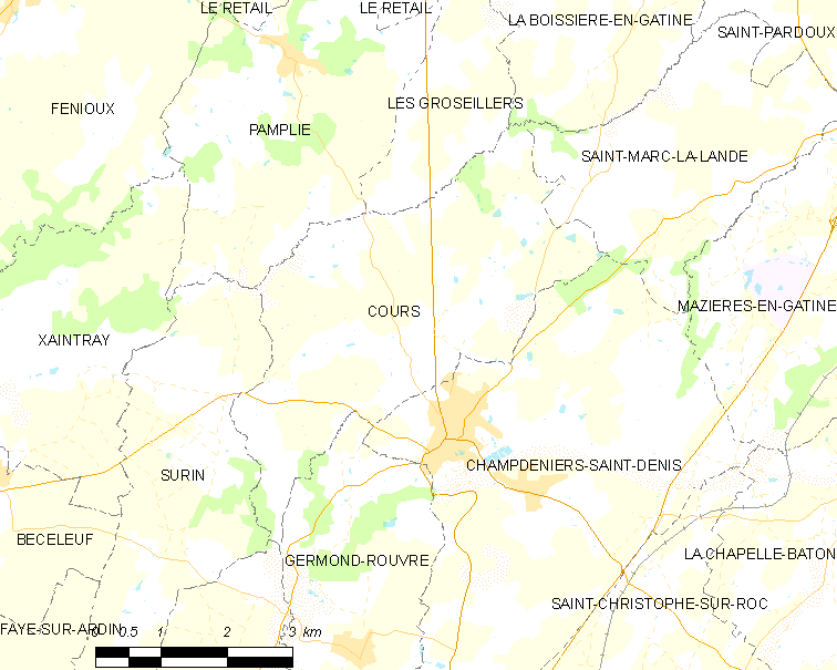 Map of French municipality Cours